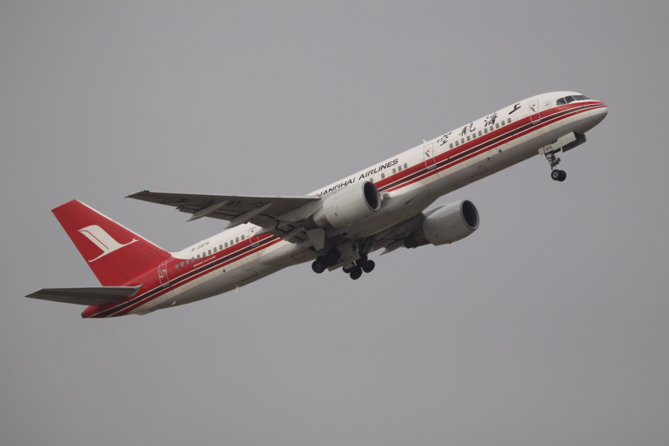 At Shenzhen Bao'an International Airport